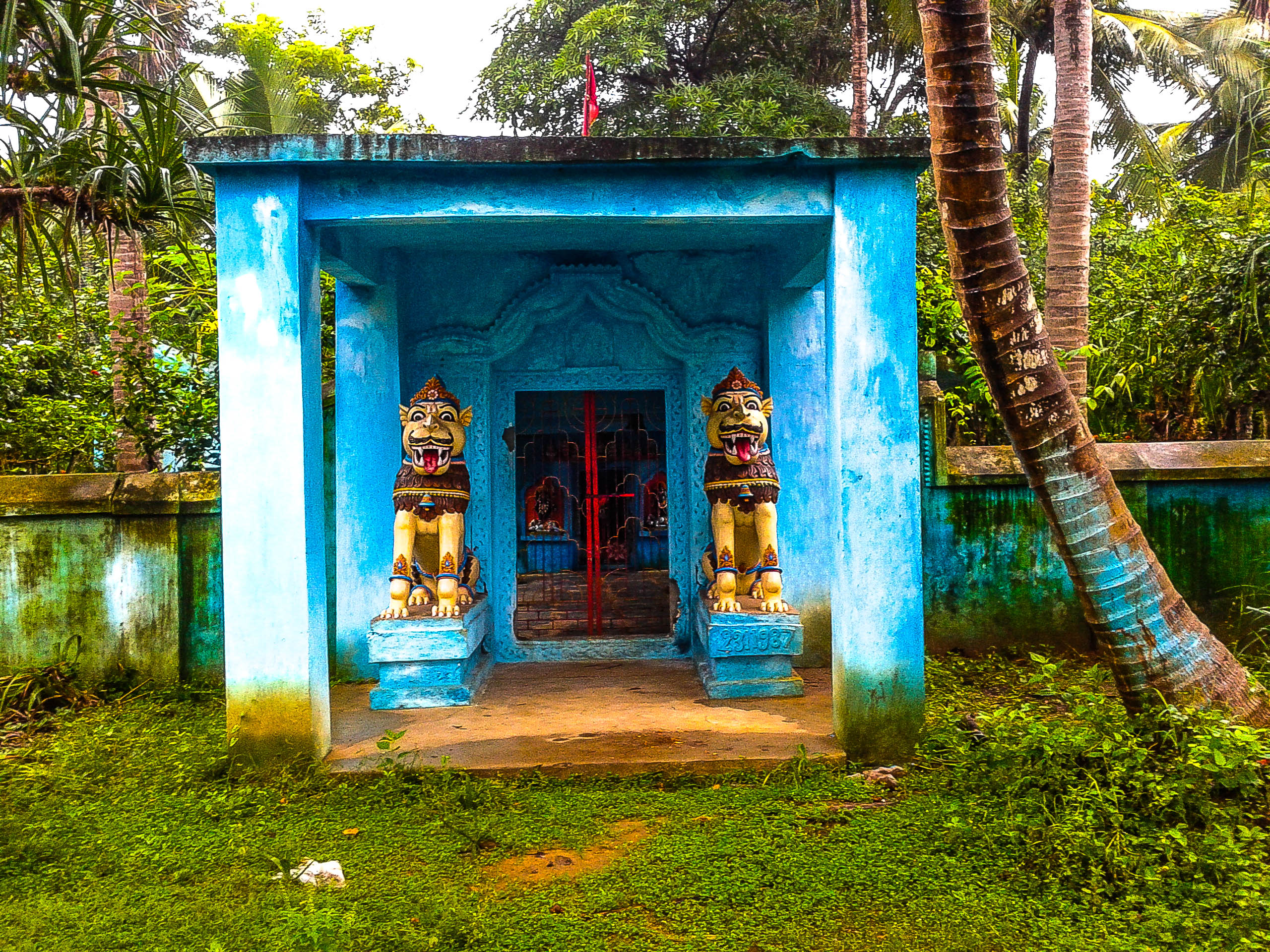 This is Bahadur Pentho Village Temple. This is old temple sinc 1975.